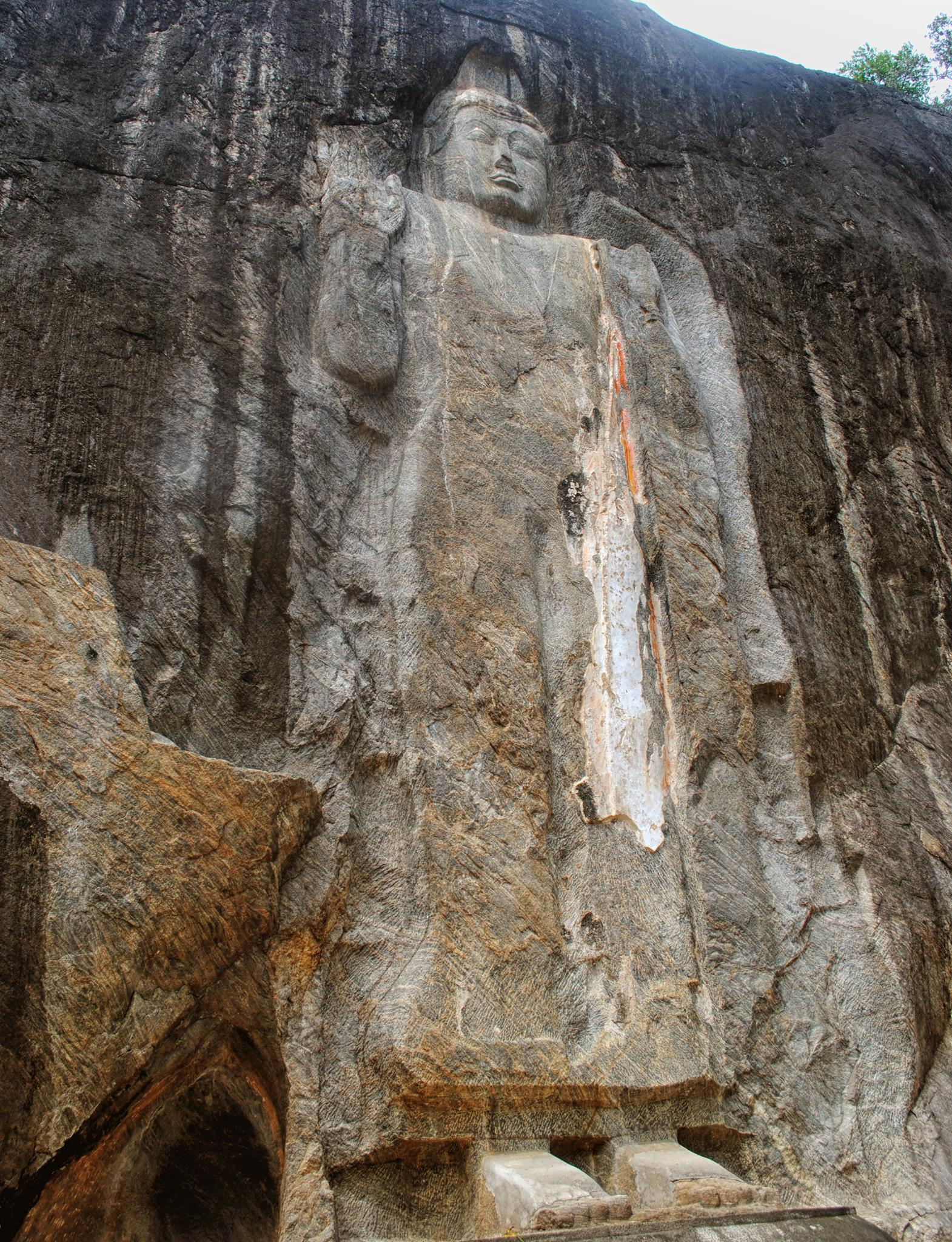 The gigantic standing Buddha – at 16m, it is the tallest on the island – in the centre still bears traces of its original stuccoed robe, and a long streak of orange suggests it was once brightly painted